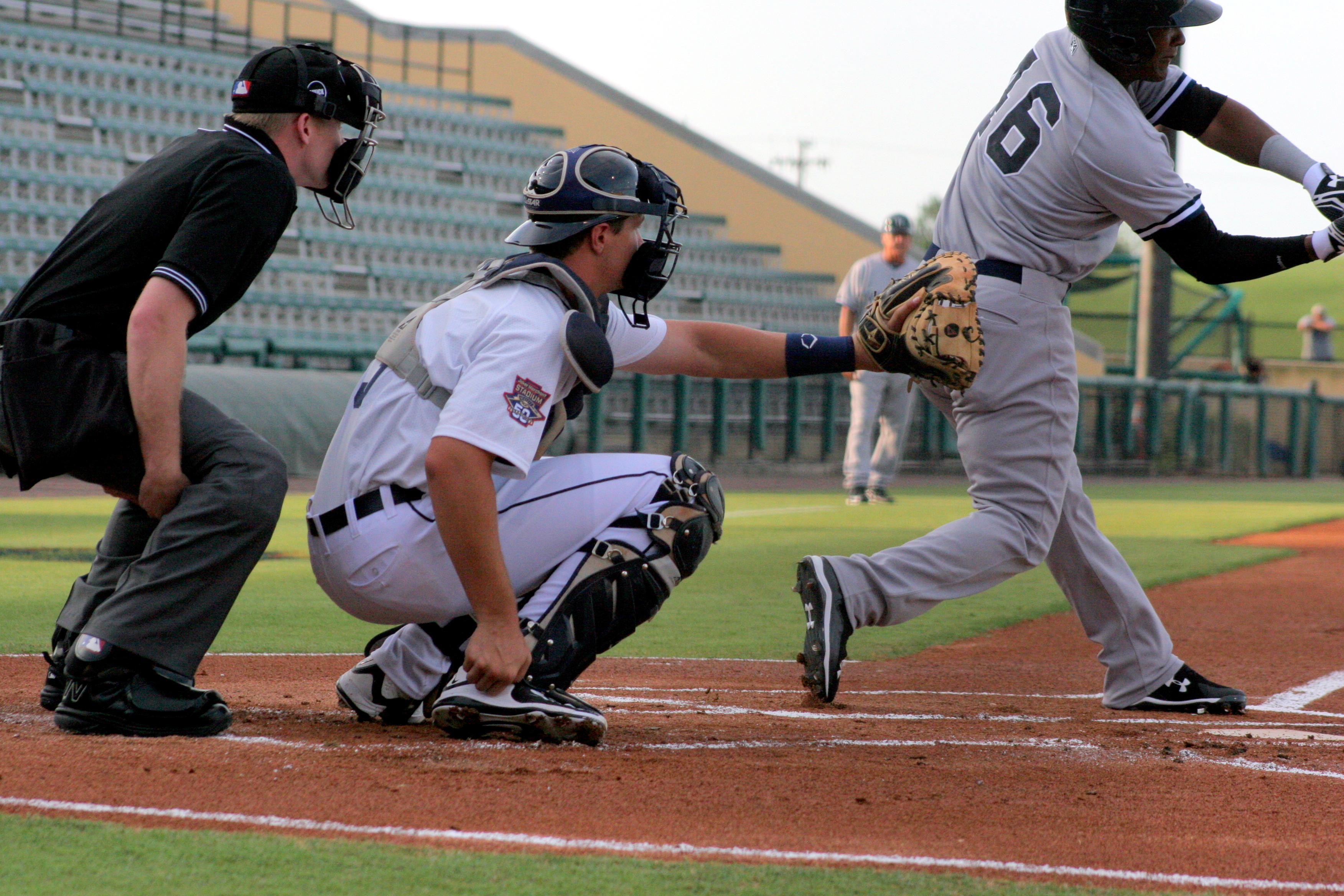 Grayson Greiner (center) catches for the Lakeland Flying Tigers in a April 2015.